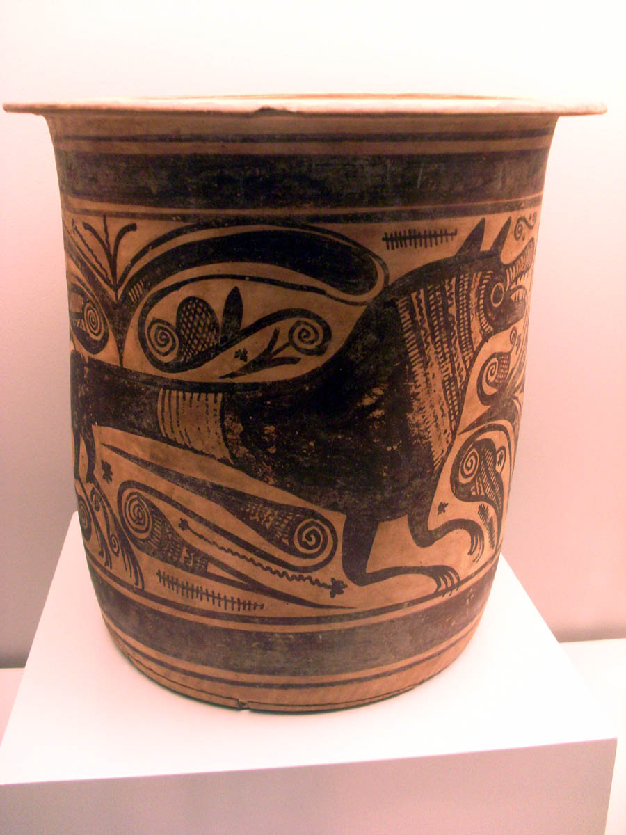 Iberian Kalathos from the necropolis of El Verdolay. 2nd c. B.C. Archaeological museum of Murcia.